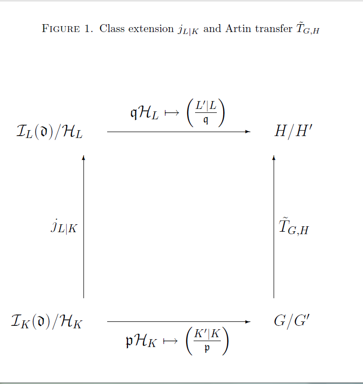 This is the famous diagram whose commutativity was proved by Emil Artin. It reduces the number theoretic problem of the principalization of ideal classes of a base field K in an extension field L to the purely group theoretic task to determine the kernel of the transfer homomorphism T from the Galois group G=Gal(K'/K) to the Galois group H=Gal(L'/L), where K', resp. L', denote maximal abelian extensions of K, resp. L. The horizontal arrows denote the reciprocity isomorphisms between class groups and Galois groups, mapping the class of a prime ideal p to the Frobenius automophism of p. The map j is the class extension homomorphism from K to L.